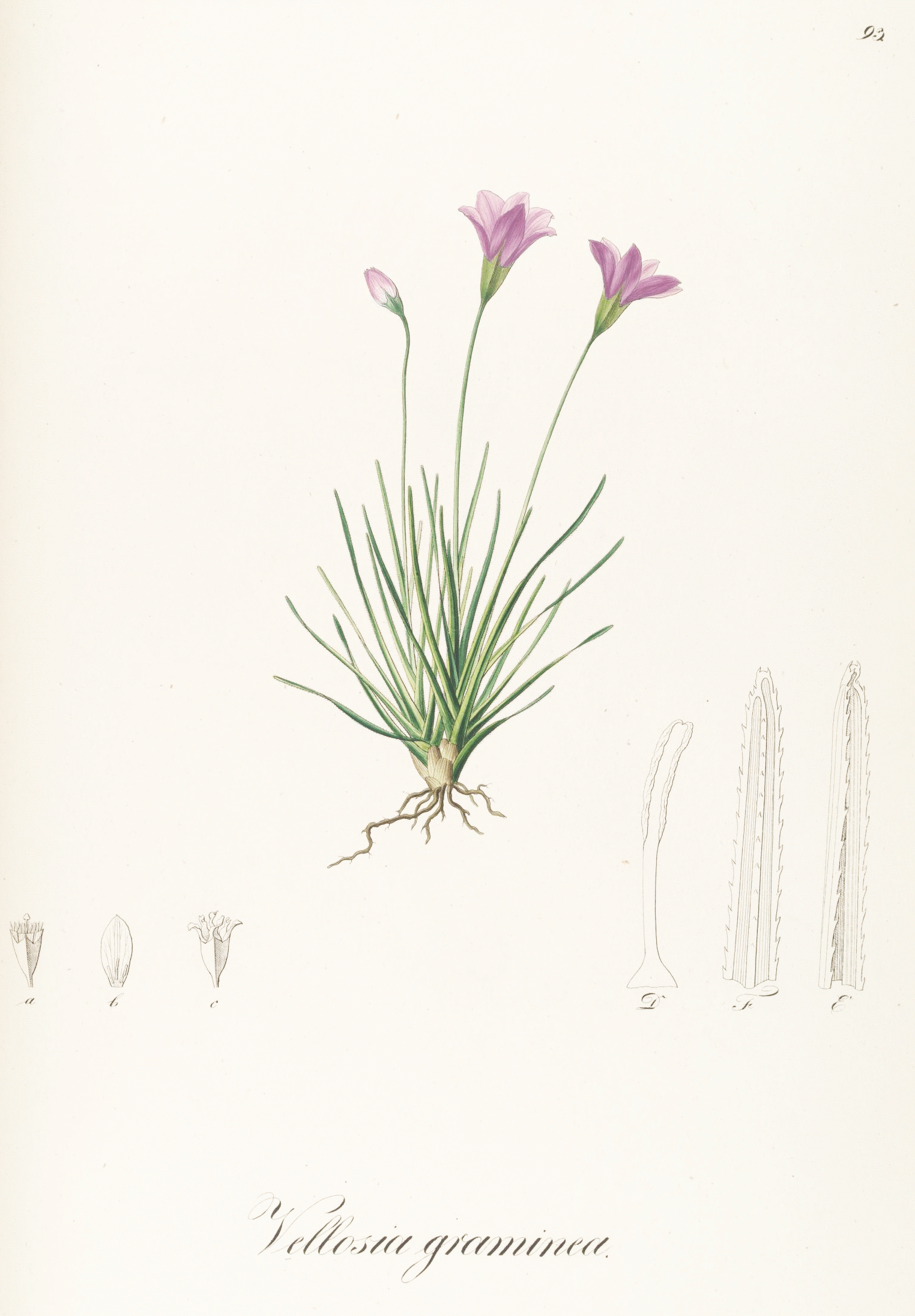 Plate from book